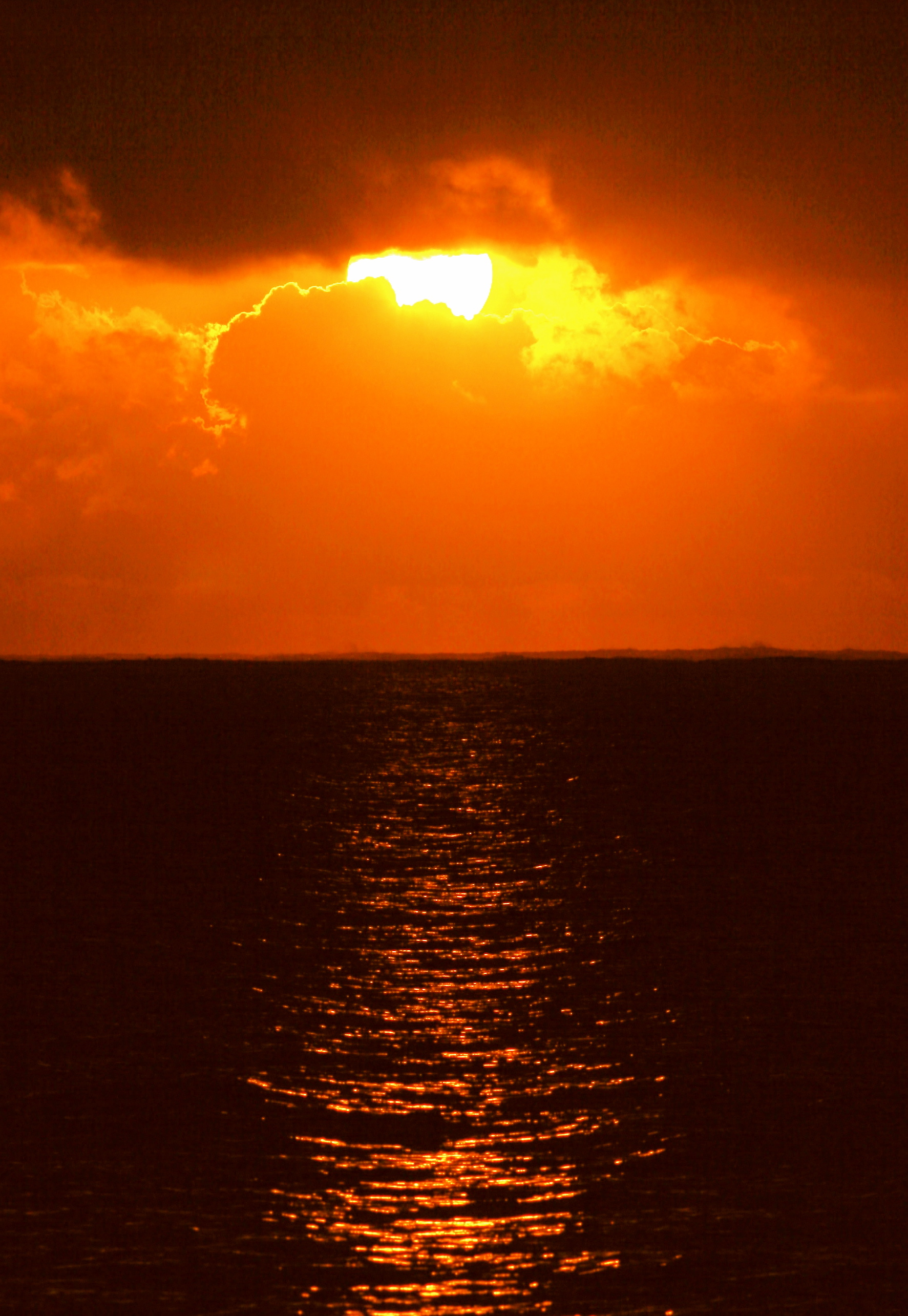 awakening sky touching new believes where night of desires comes from old life's lamps - Awakening Sky, by Peter S. Quinn (6:34 AM, Bamburi Beach, Mombasa, Kenya)